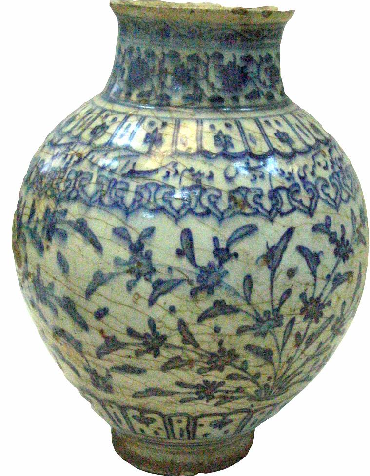 Jar, Blue & White, Mashad, Nastaliq, 1465. National Iran Museum, Tehran.